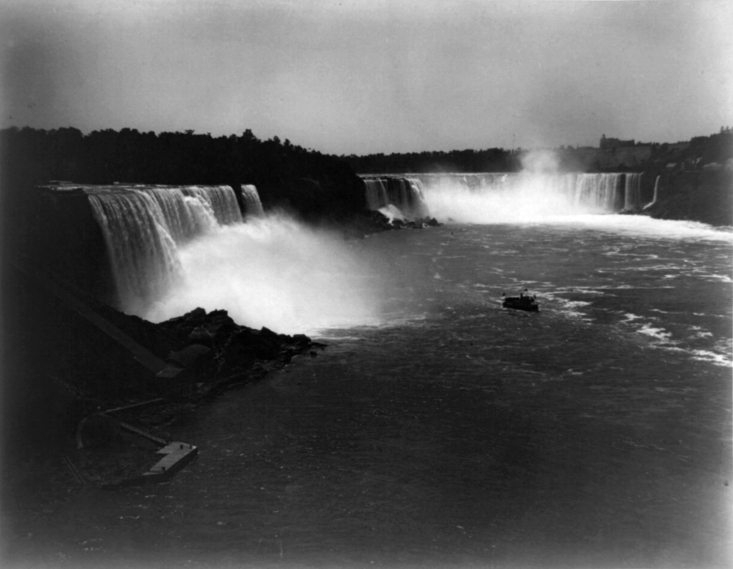 Bird's-eye view of Niagara Falls and Maid of the Mist excursion boat.